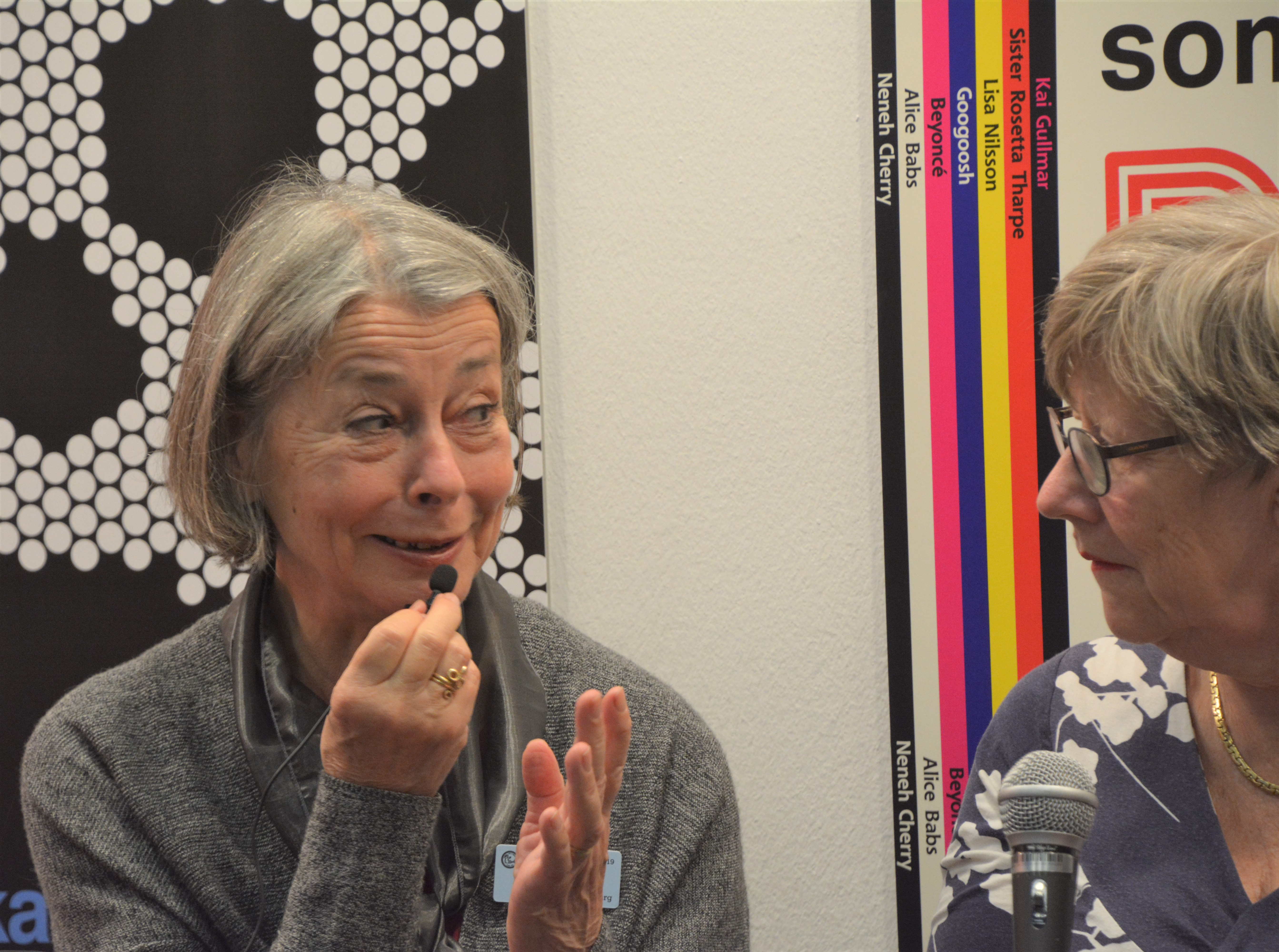 Åsa Moberg and Agnes Wold at Göteborg Book Fair 2019